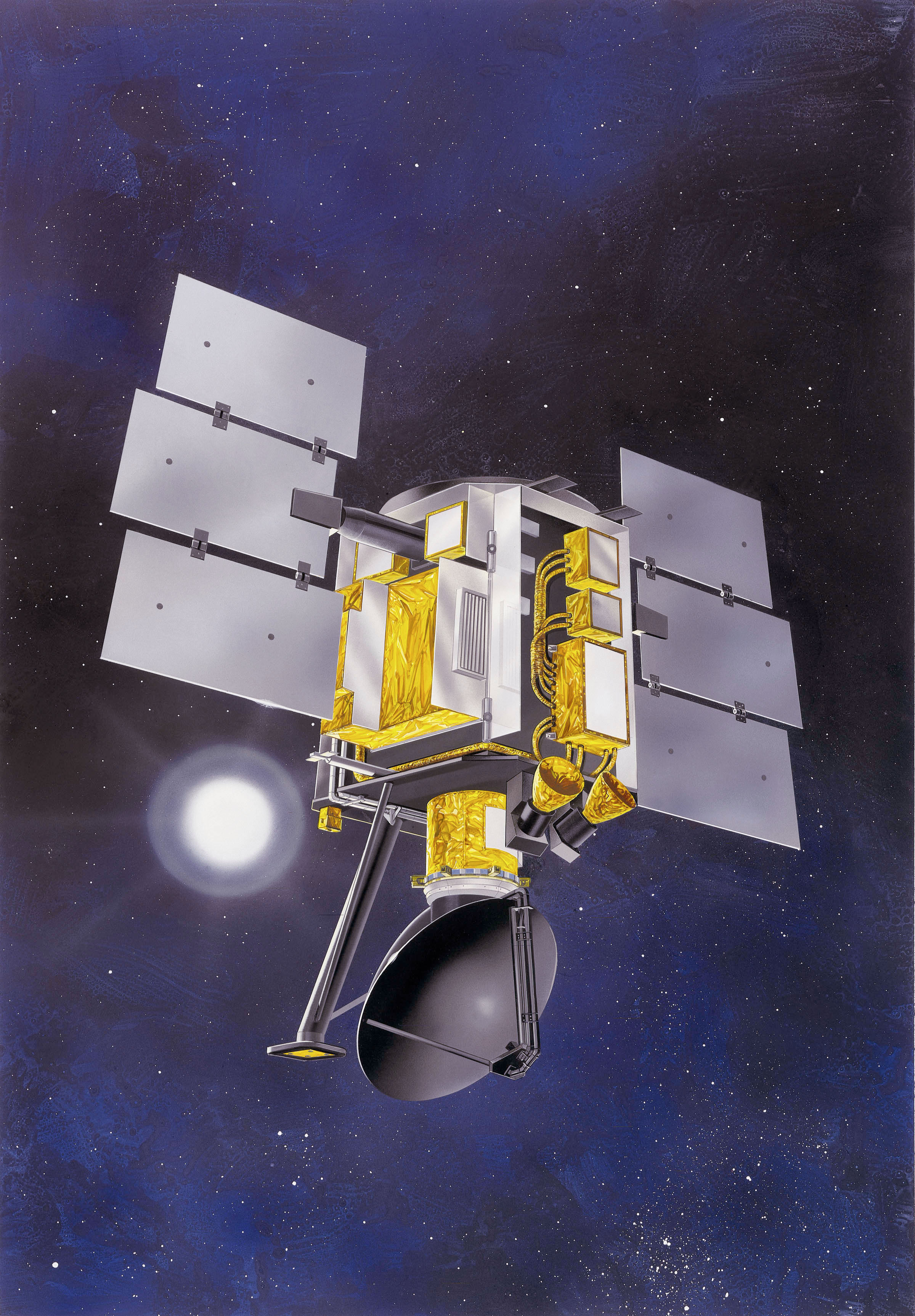 Artist conception of the QuikSCAT satellite